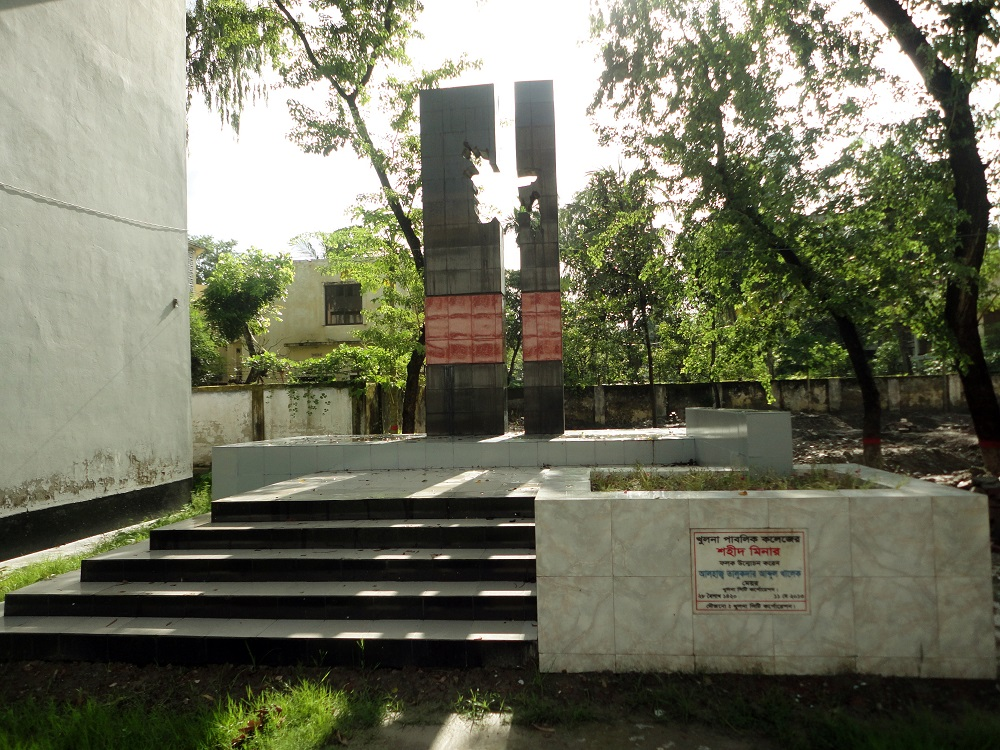 The cenotaph of KPC